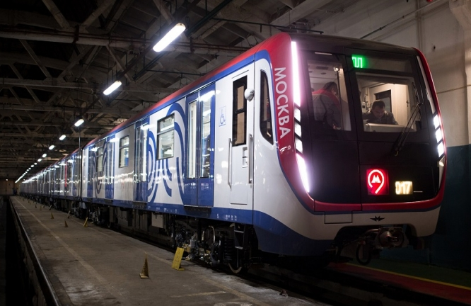 The first electric multiple unit metro train 81-765/766/767 «Moscow» in Vykhino depot of Moscow Metro